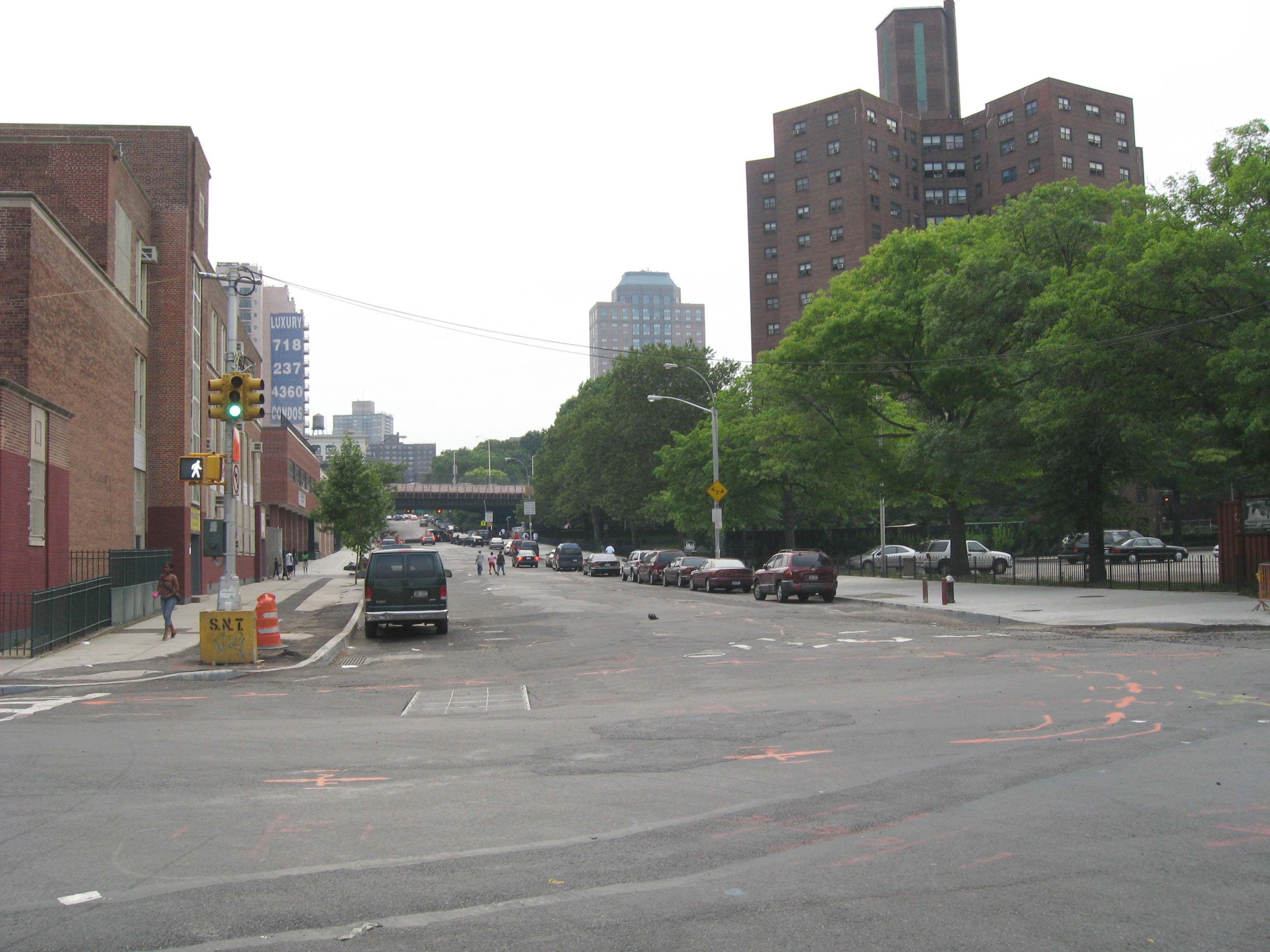 Looking west from Flushing Avenue, across Navy Street and along Nassau Street on a cloudy afternoon July 17 2008.